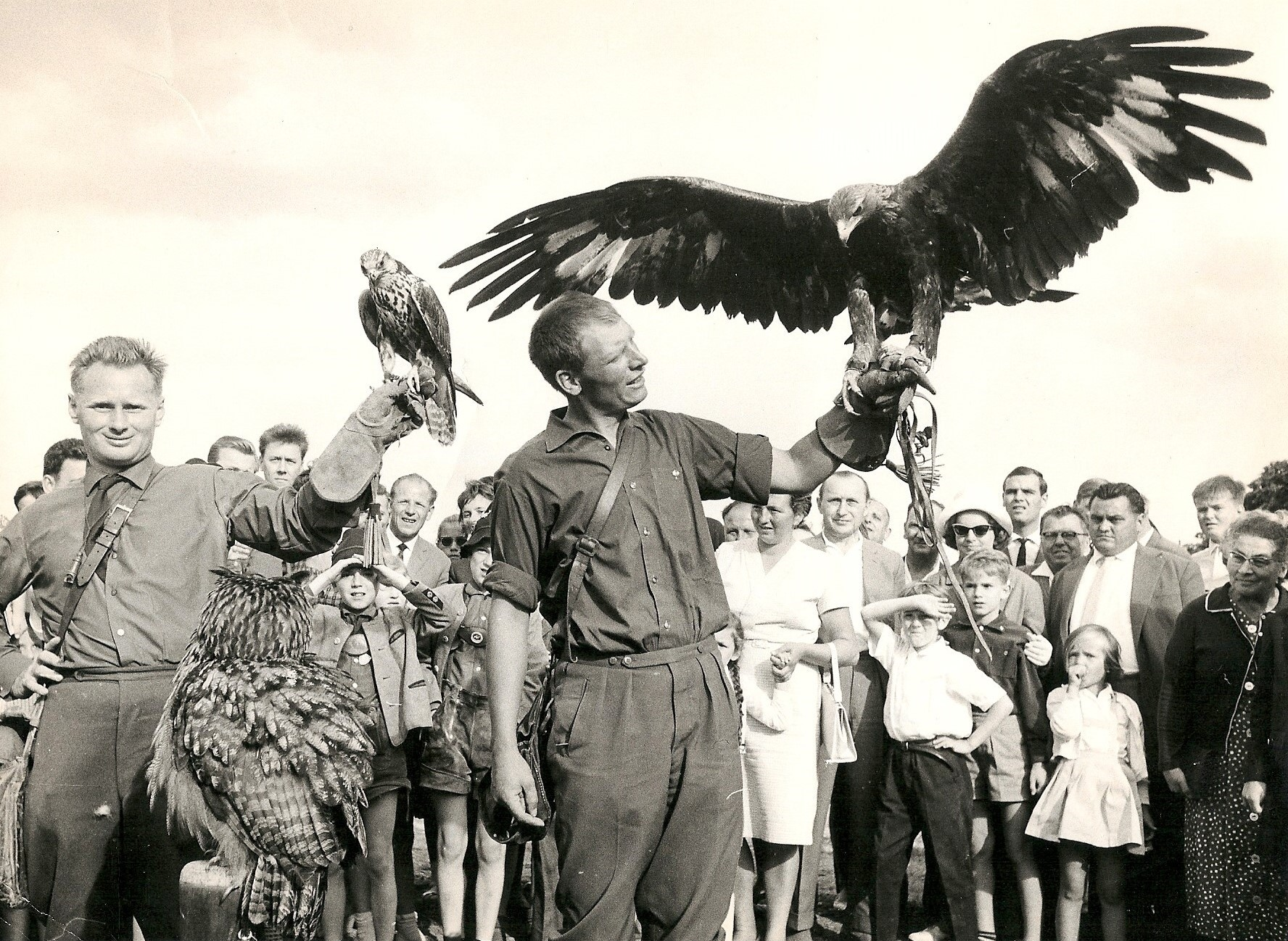 Der deutsche Falkenhof